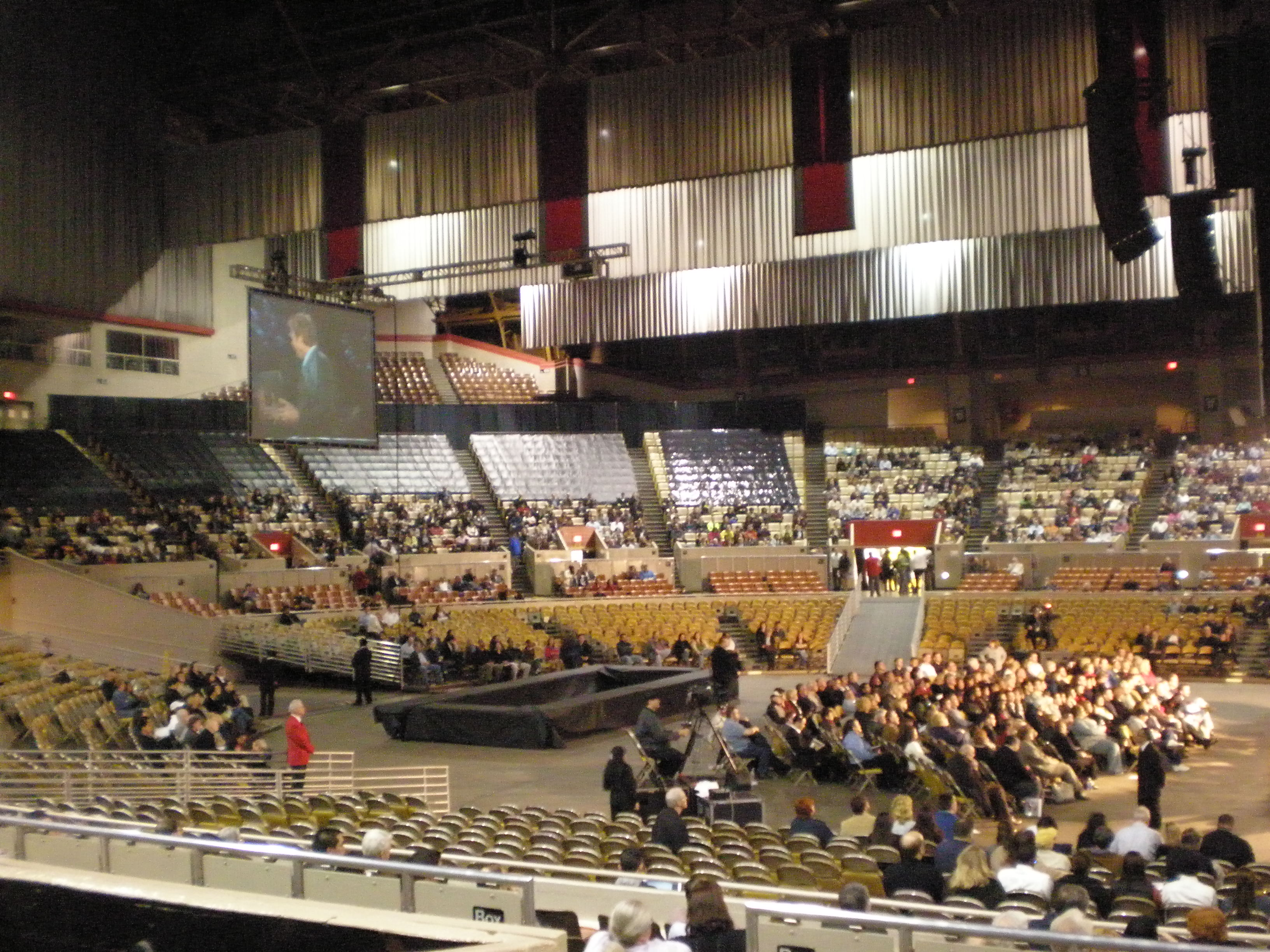 The set up at the Cow Palace in Daly City, California for the Get Motivated seminar.